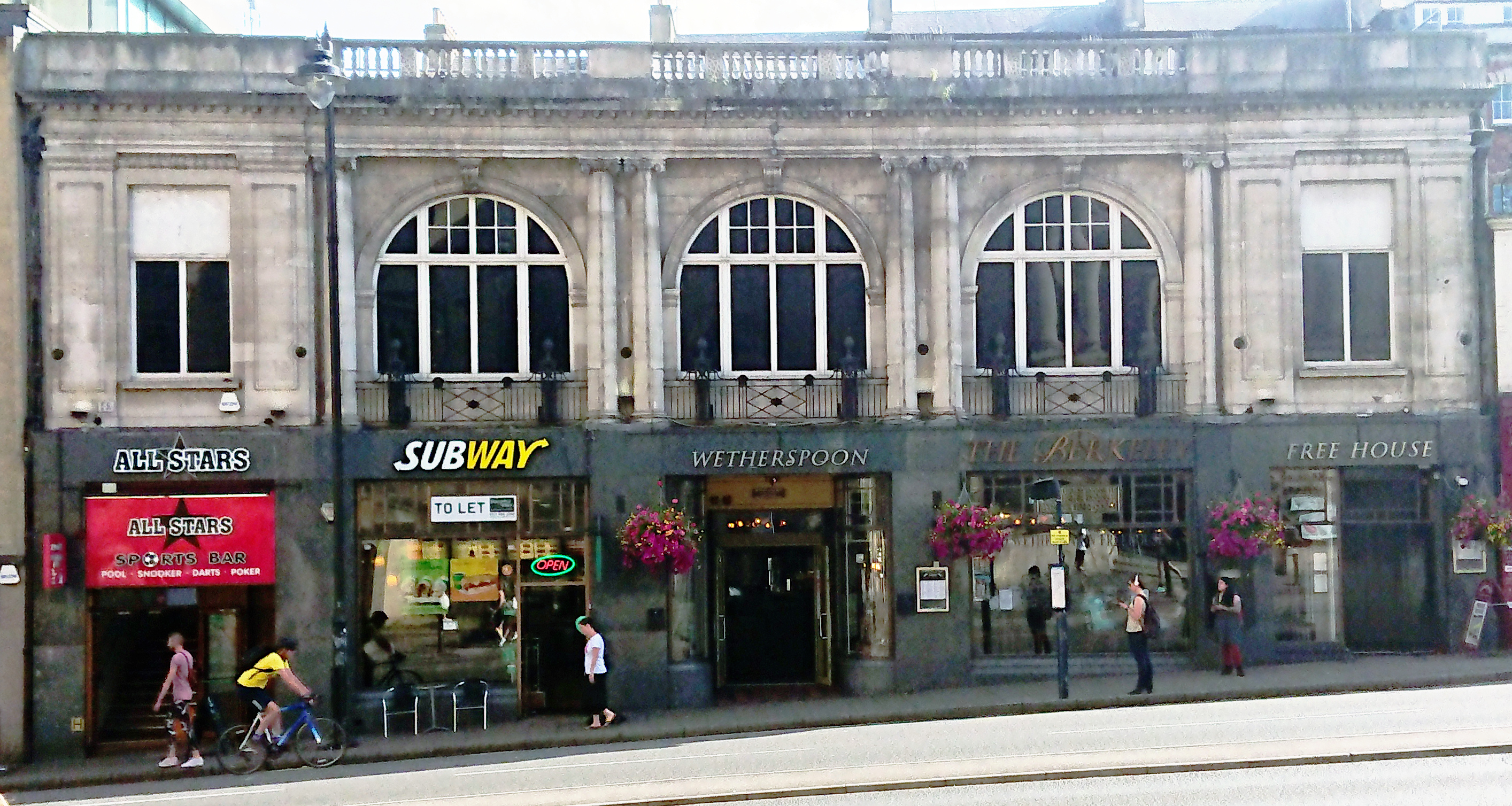 Former Cadena Cafe in Bristol near the University